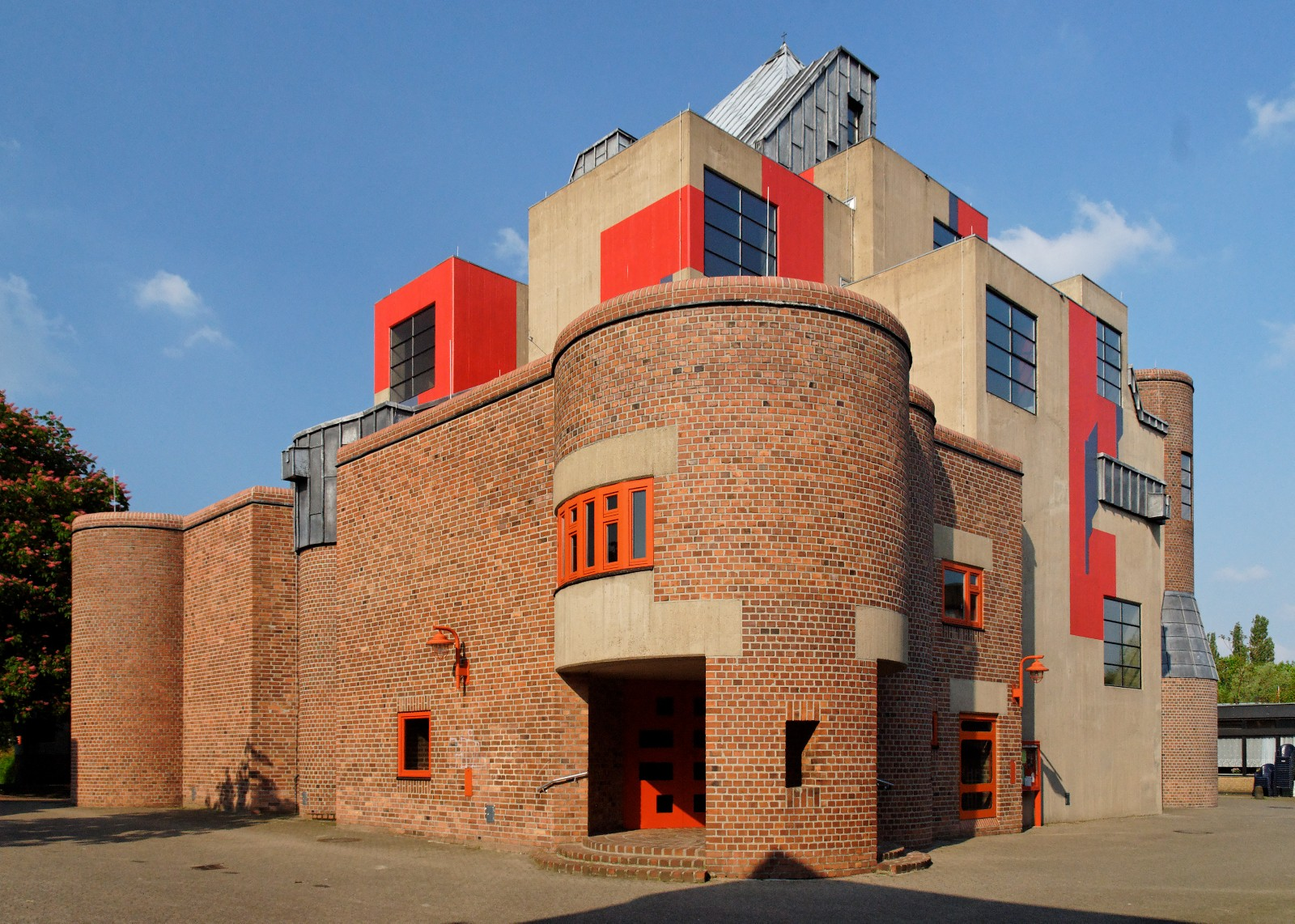 Saint Matthew in Düsseldorf-Garath, Germany